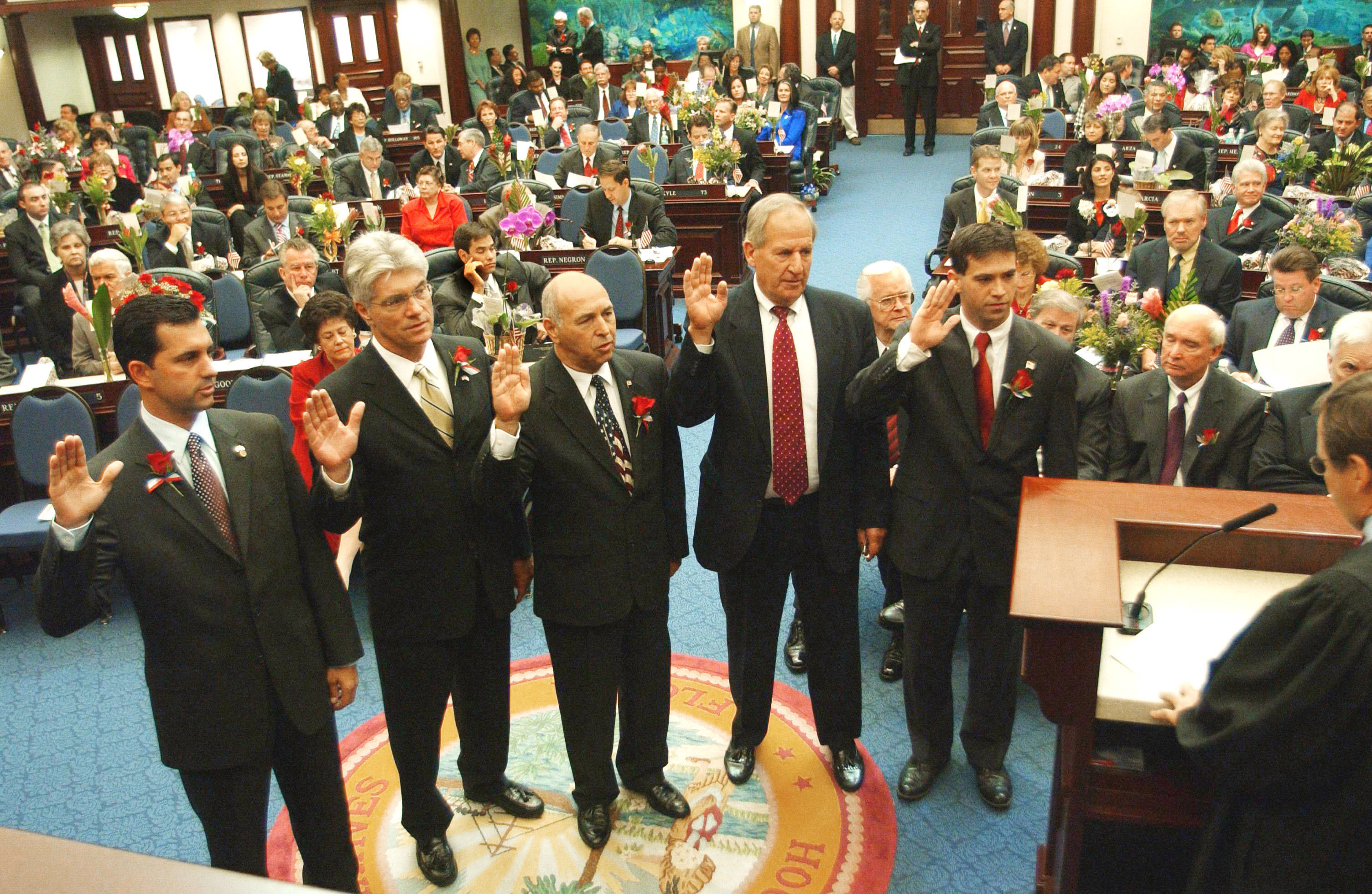 Newly-elected Representatives are sworn in during ceremonies on the House floor Nov. 16, 2004. From the left are Representatives: Trey Traviesa, R-Tampa; Michael Grant, R-Port Charlotte; Richard Glorioso, Plant City; Everett Rice, R-Indian Shores; and John Legg, R-Port Richey.